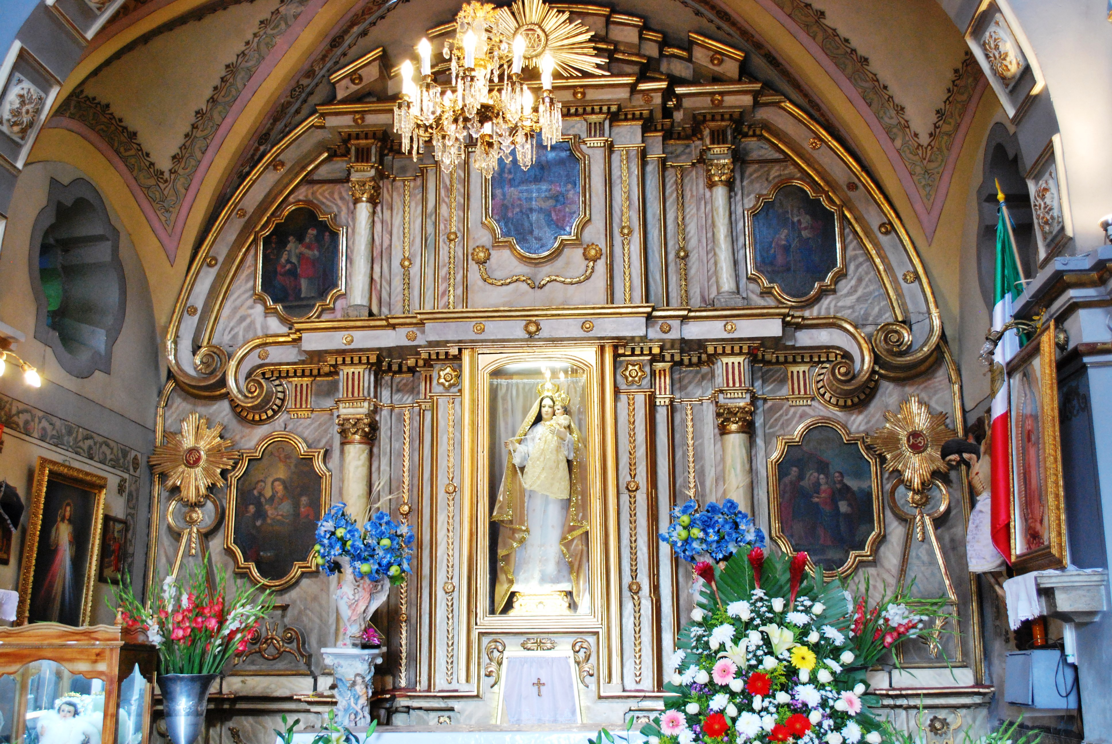 Main altar of the Nuestra Señora del Rosario Chapel in Xochimilco, Mexico City